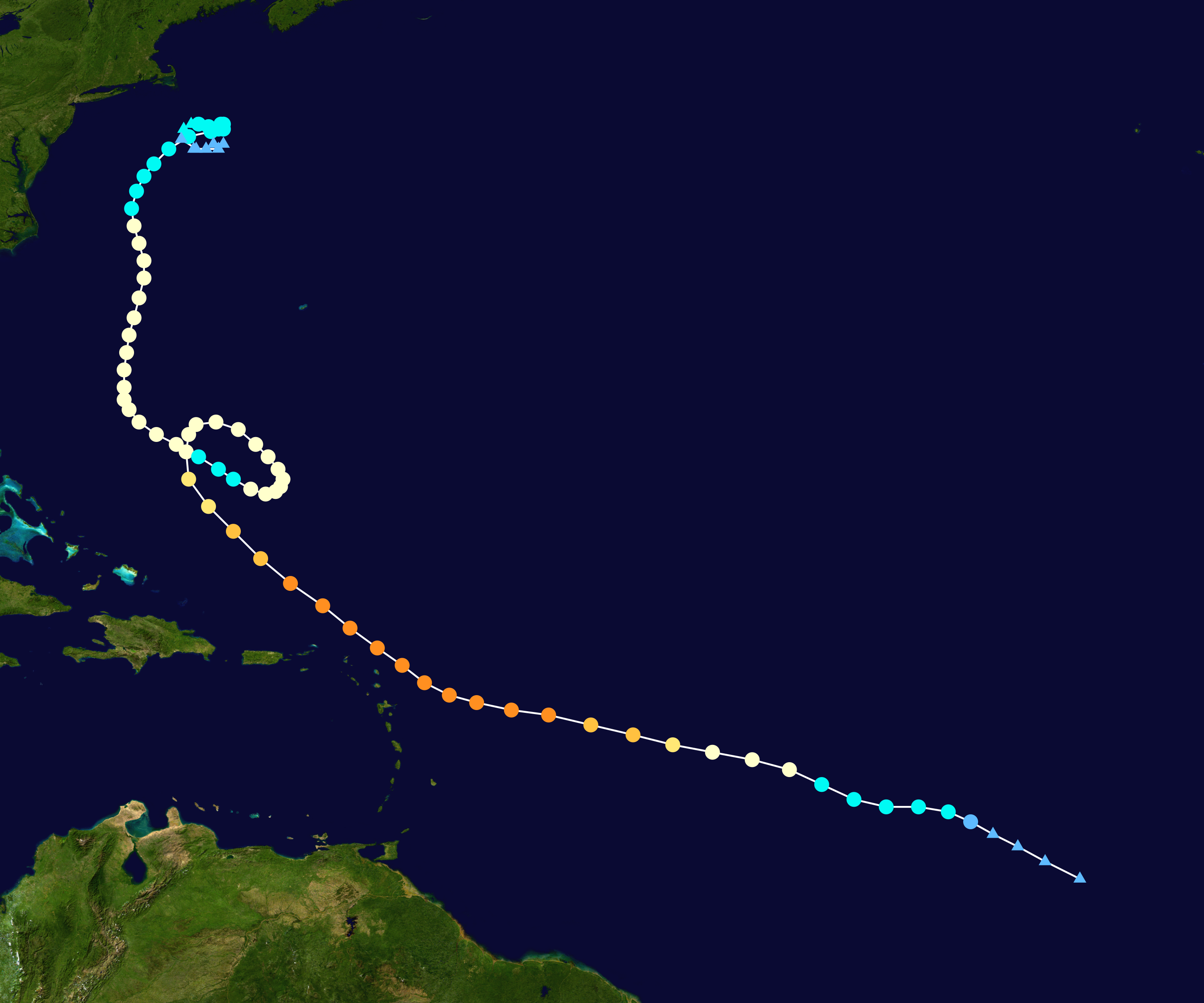 Track map of Hurricane Jose of the 2017 Atlantic hurricane season. The points show the location of the storm at 6-hour intervals. The colour represents the storm's maximum sustained wind speeds as classified in the Saffir–Simpson scale (see below), and the shape of the data points represent the nature of the storm, according to the legend below. Saffir–Simpson scale Tropical depression≤38 mph≤62 km/h Category 3111–129 mph178–208 km/h Tropical storm39–73 mph63–118 km/h Category 4130–156 mph209–251 km/h Category 174–95 mph119–153 km/h Category 5≥157 mph≥252 km/h Category 296–110 mph154–177 km/h Unknown Storm type Tropical cyclone Subtropical cyclone Extratropical cyclone / Remnant low / Tropical disturbance / Monsoon depression